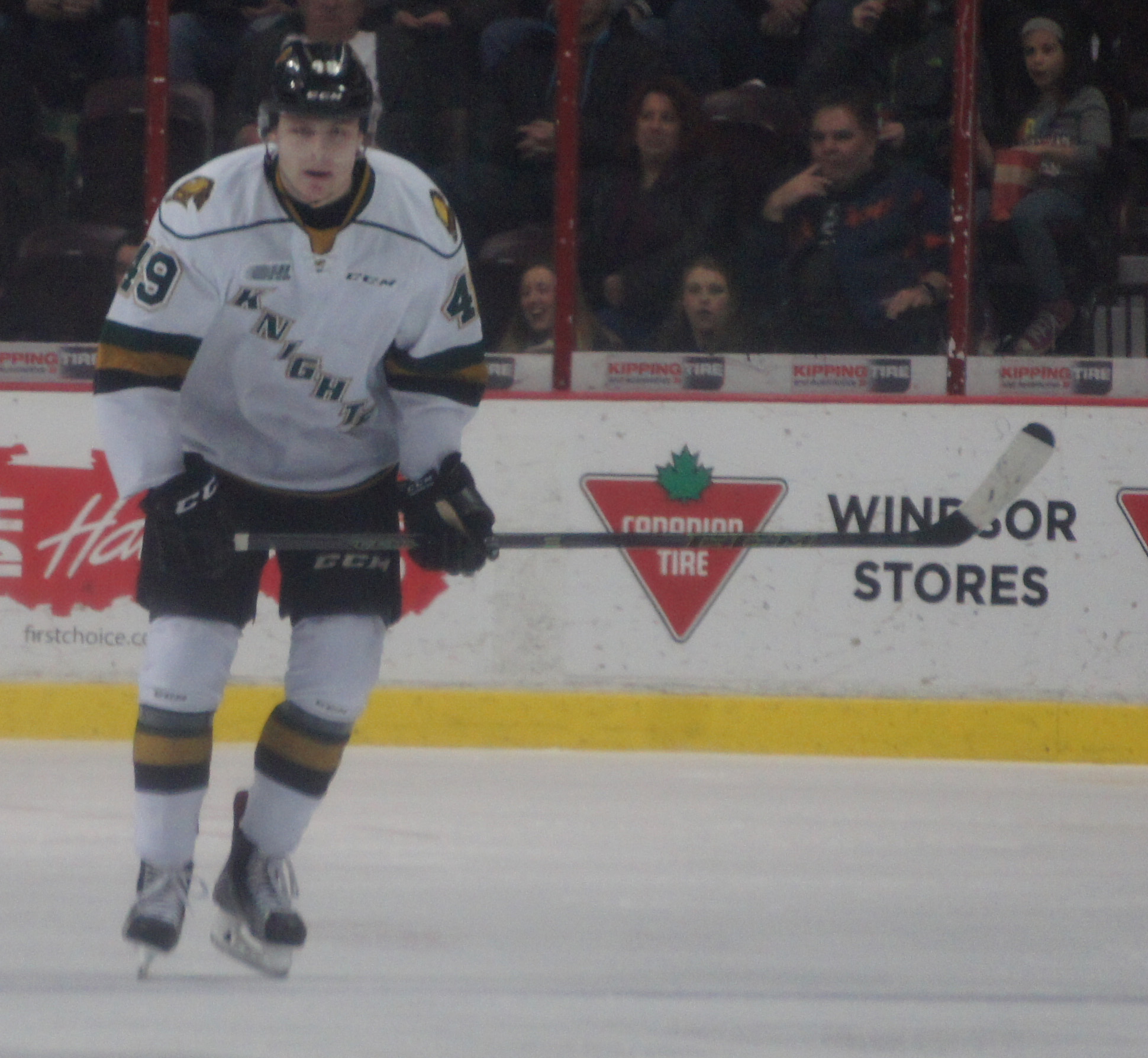 Max Jones playing for the London Knights against the Windsor Spitfires, Jan. 30, 2016